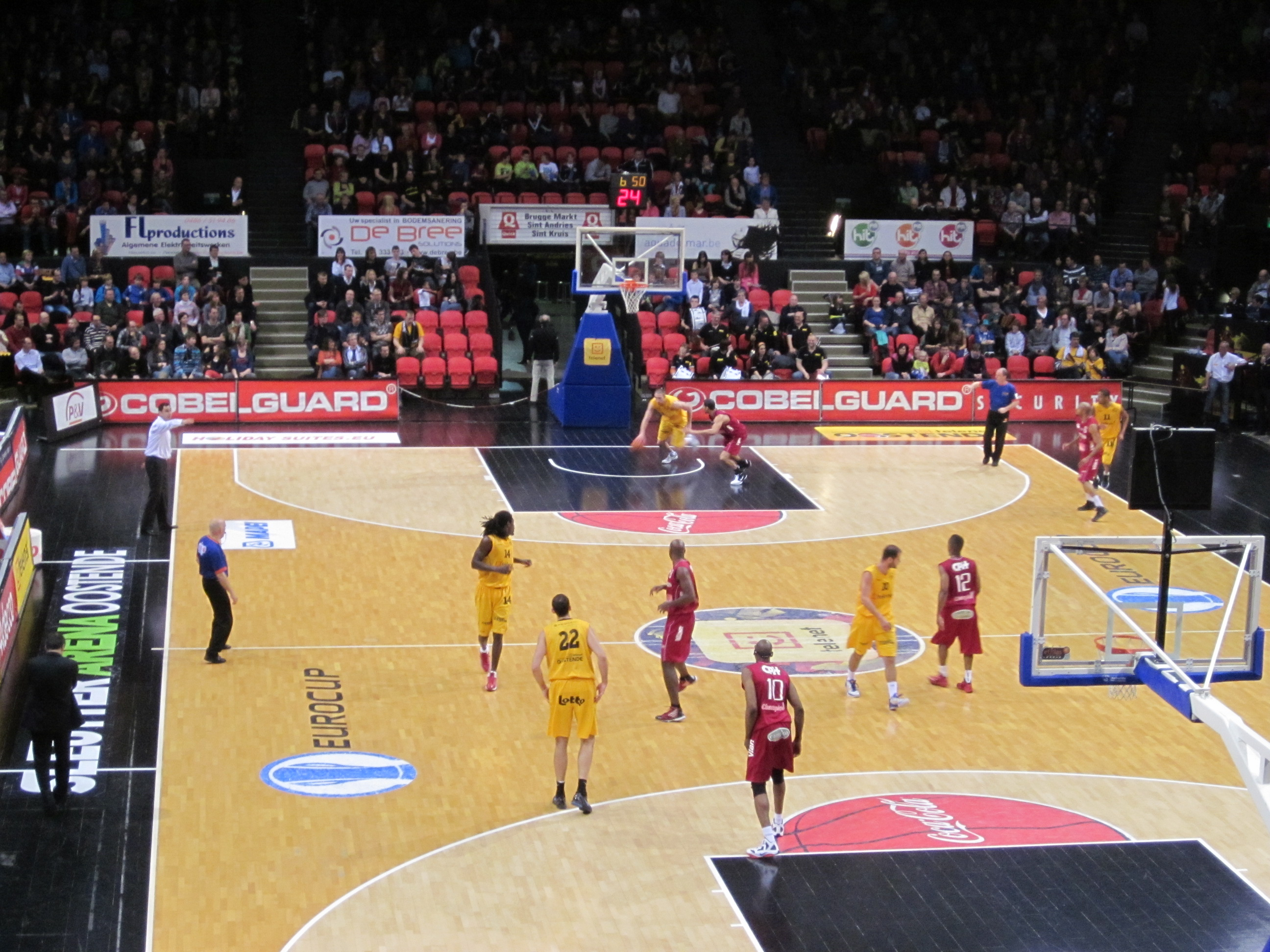 Basketball game: Telenet Ostend (yellow) - Belgacom Spirou Charleroi(red), Sleuyter Arena, Ostend, Belgium